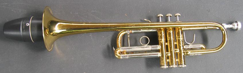 Trumpet with mute